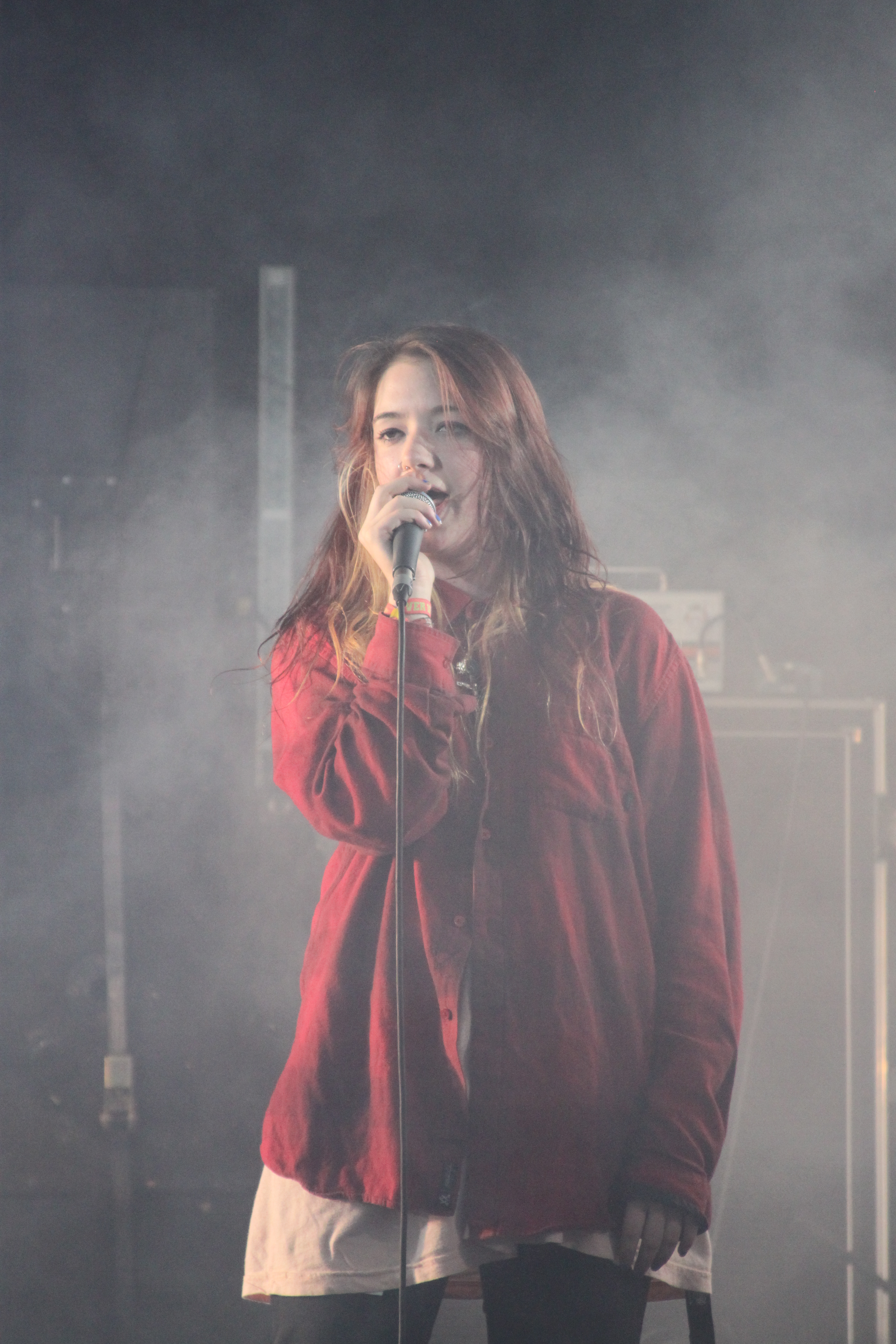 Becca Macintyre from Marmozets at Freeze Festival, 2011